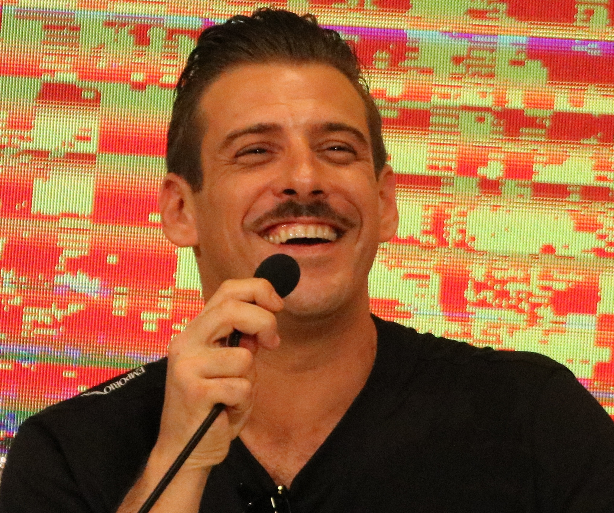 Francesci Gabbani di Sanremo